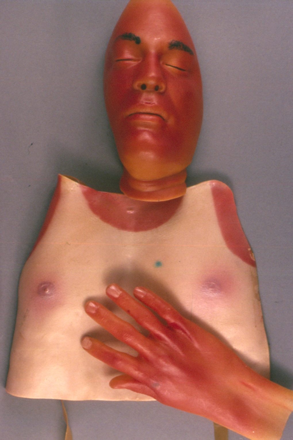 Wound Moulages, Atomic Burns of Face, Chest and Hand. Army Training Aid Moulage Set, War Wounds, Manufacturer: Alderson Research Laboratories Inc., Used by U.S. Navy. 1959 M-728,10096; M-728.10096 ; Accession 1996.0010